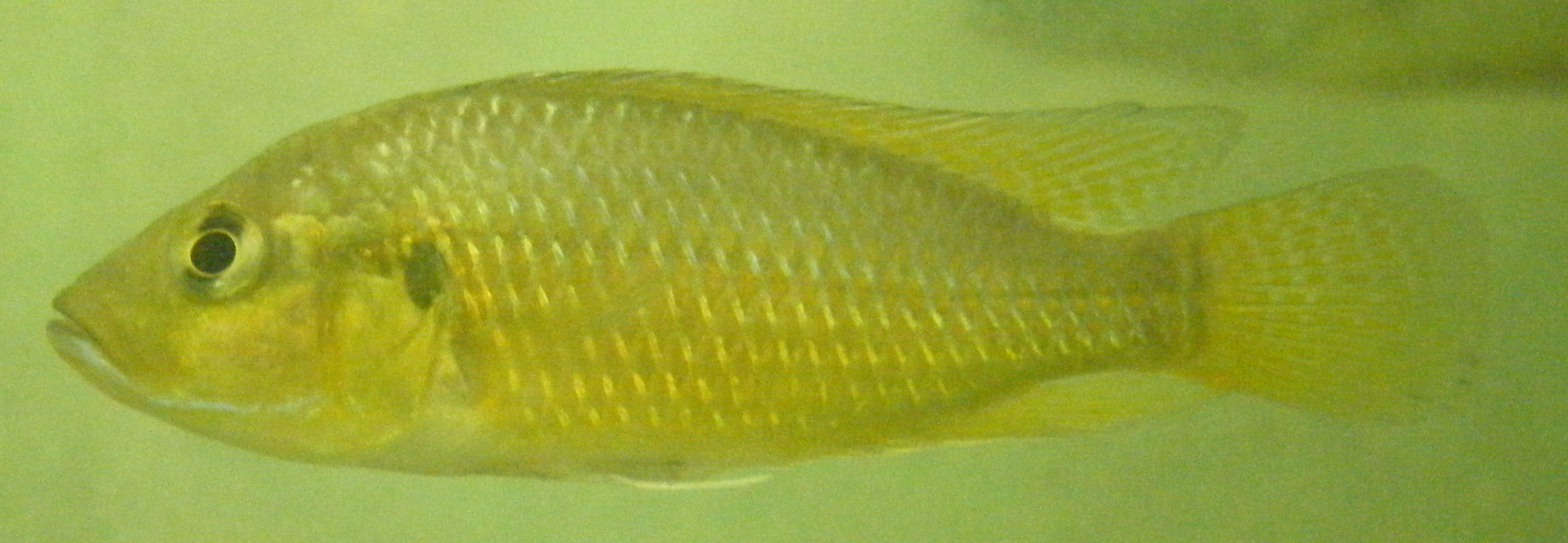 Pseudocrenilabrus philander, wild caught male from Lake Chilingali